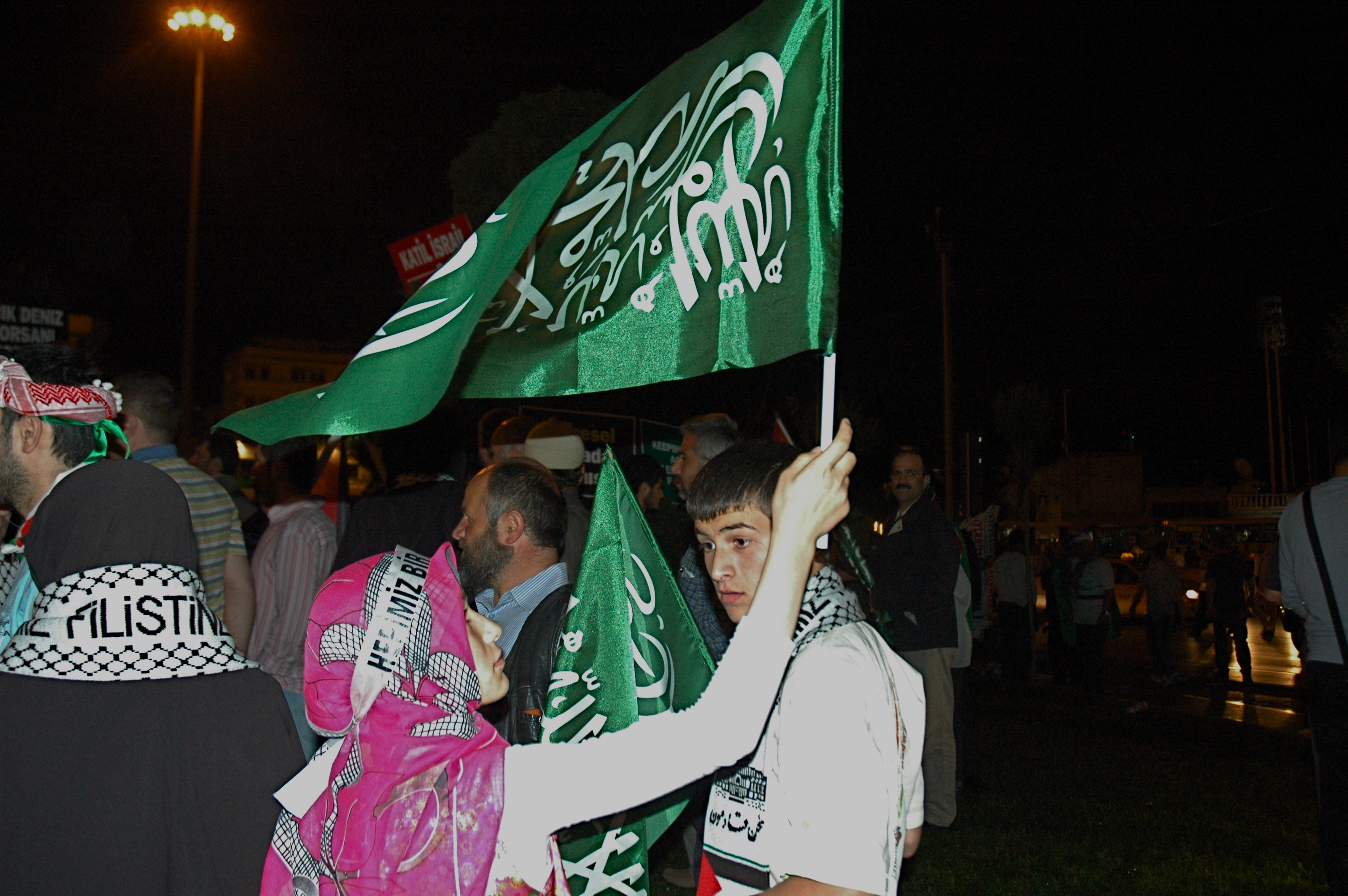 A woman holding a flag of the Hamas in Taksim square, Istanbul in a rally following the attack against the freedom flotilla